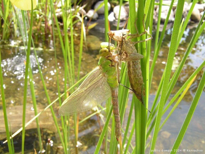 molting (moulting) dragonfly